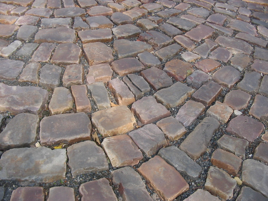 Cobblestones, Novy Svet, Prague